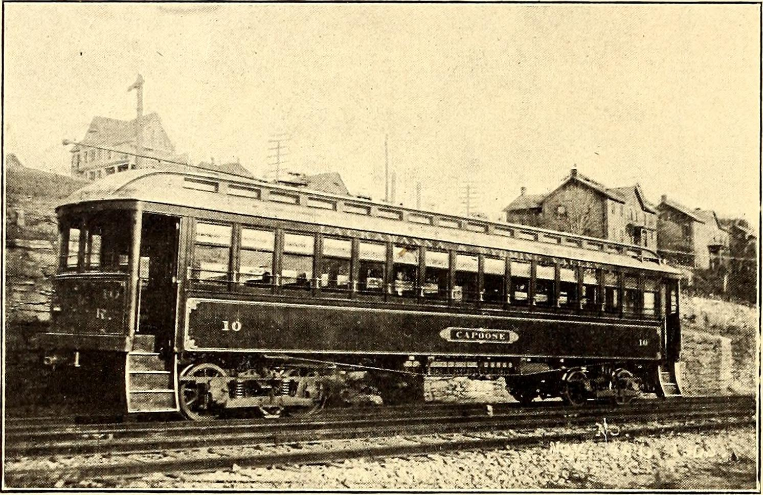 Title: The Street railway journal Year: 1884 (1880s) Authors: Subjects: Street-railroads Electric railroads Transportation Publisher: New York : McGraw Pub. Co. Text Appearing Before Image: The interchanges freight with the Erie Railroad, the Delaware,Lackawanna & Western Railroad, and the Lehigh ValleyRailroad, and expects to haul through steam railroad passen-ger cars for certain of the steam railroad lines, which reachone of its terminals and not the other. i66 STREET RAILWAY JOURNAL. (Vol. XXVIIL No. 5. FREIGHT AND EXPRESS SERVICE The company has leased the express business on its line to the Adams Express Company, and is one of the very few elec-tric railways whose express business is conducted by one ofthe old line express companies. There are five express runseach way by special express motor car. In addition, freightcars are hauled over the line by a steam locomotive owned Scranton, and the company uses a modification of Nos. 19and 31 of the Standard American Railway Forms, as shownon page 170, except that the instruction is sent by telephoneinstead of telegraph. The conductor is required to write thetrain order as received by the despatcher on an autographic Text Appearing After Image: '